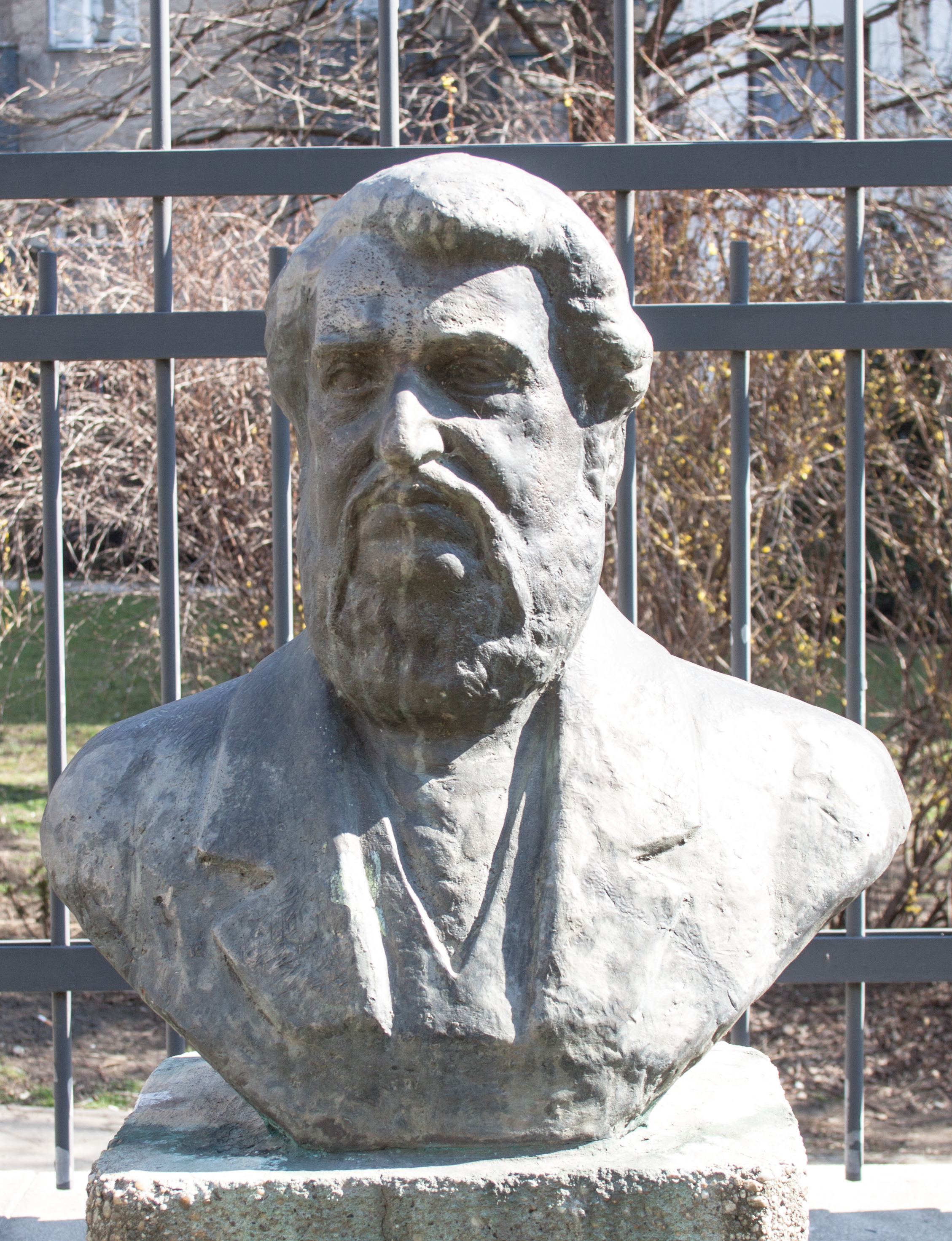 Bust of Tivadar Rombauer